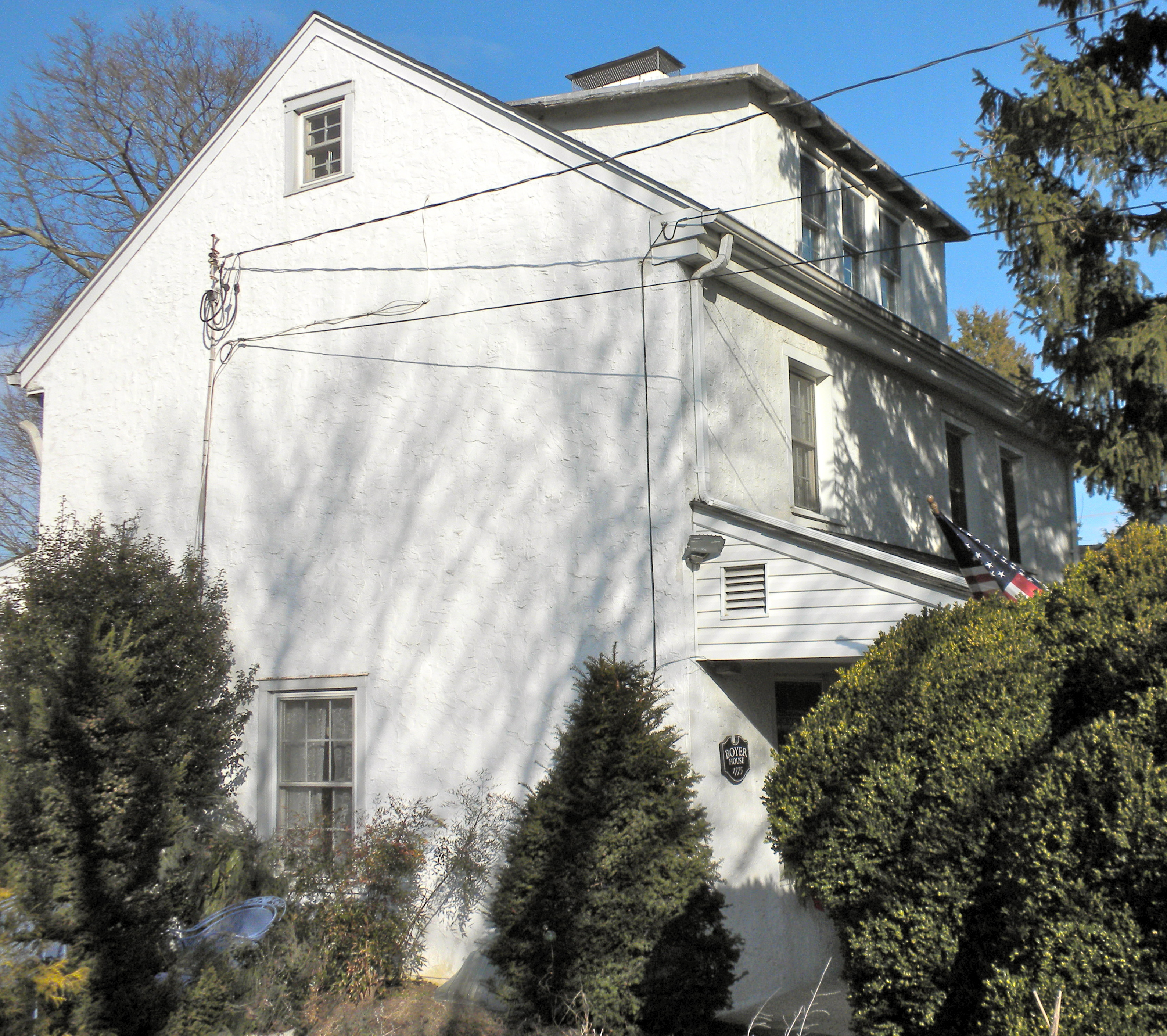 Boyer House on Boot Road, north of West Chester, PA. On NRHP